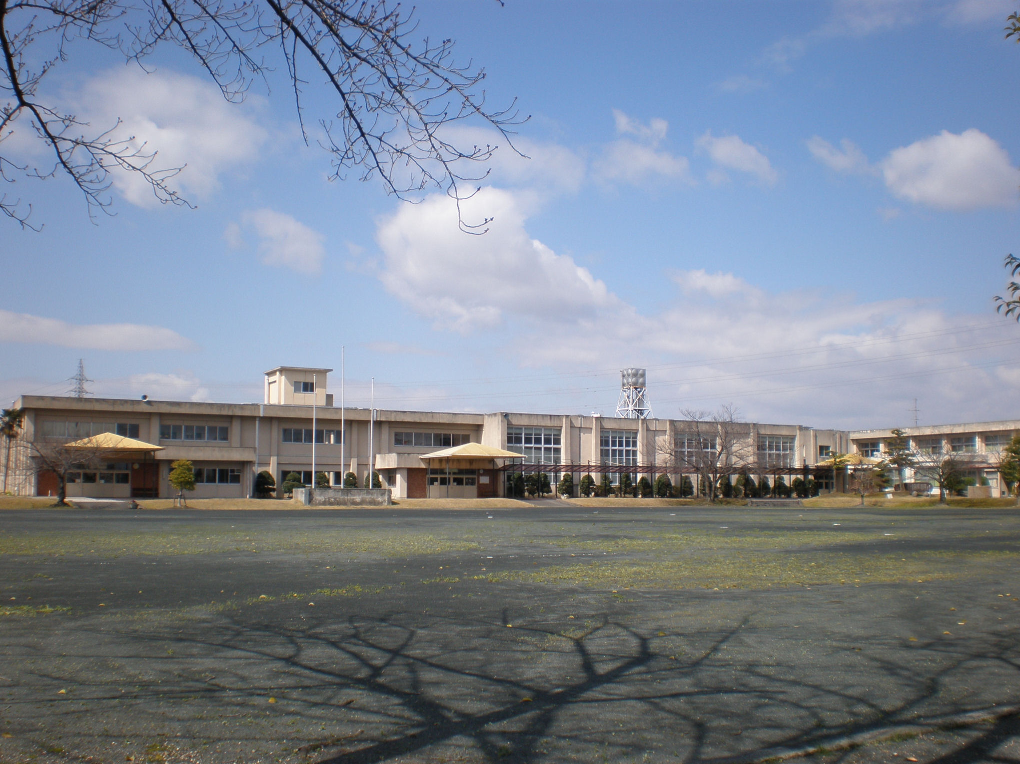 Komaki Yōgo School is Aichi prefectural school for handicapped children.